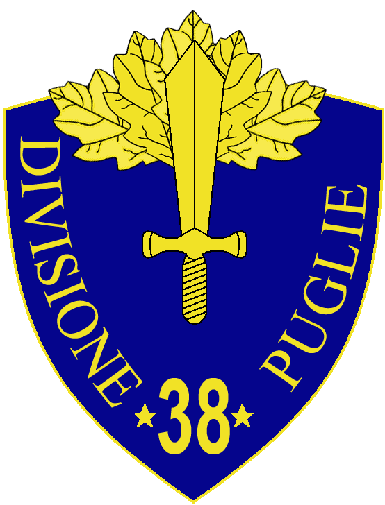 38a Divisione Fanteria Puglie insignia, Regio Esercito, Italy, WWII